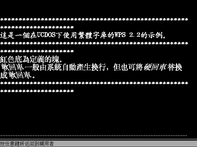 A screenshot of Print Emulation of WPS 2.2 under UCDOS...